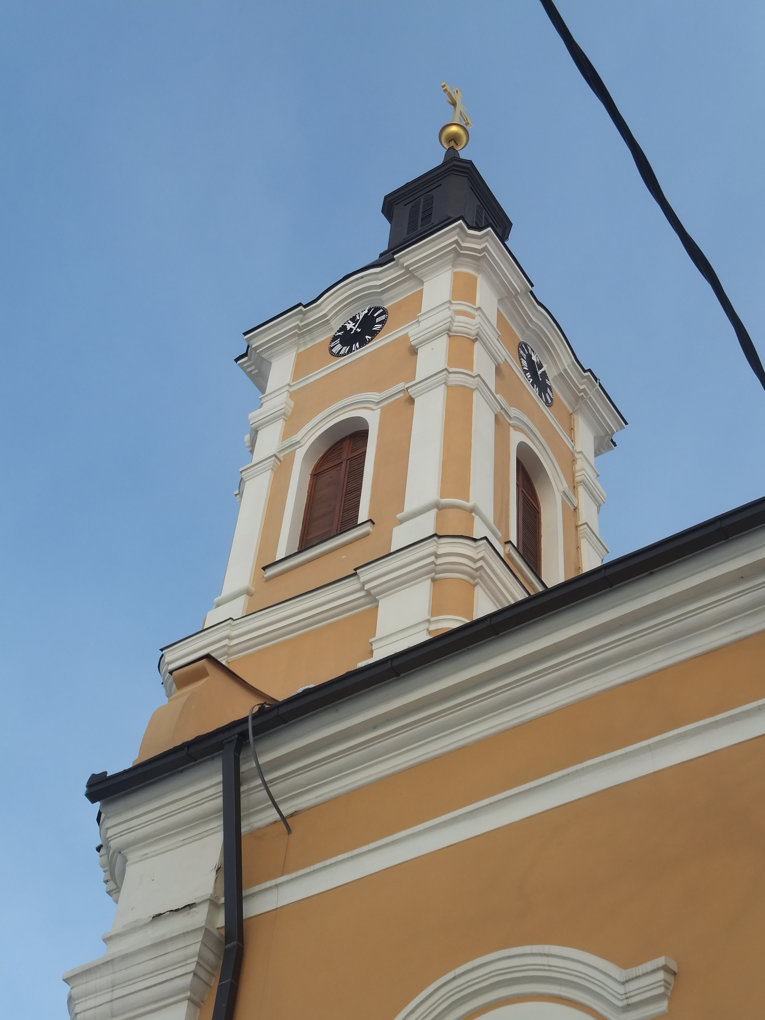 Church of Saint Nicholas in Šimanovci